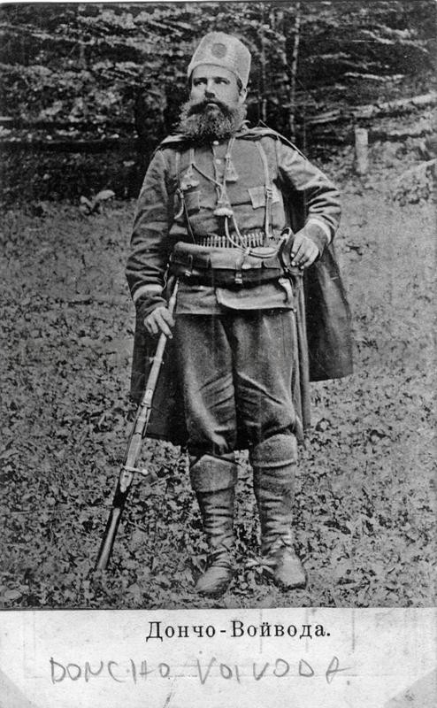 Portrait of Bulgarian revolutionary from SMAC Doncho Zlatkov